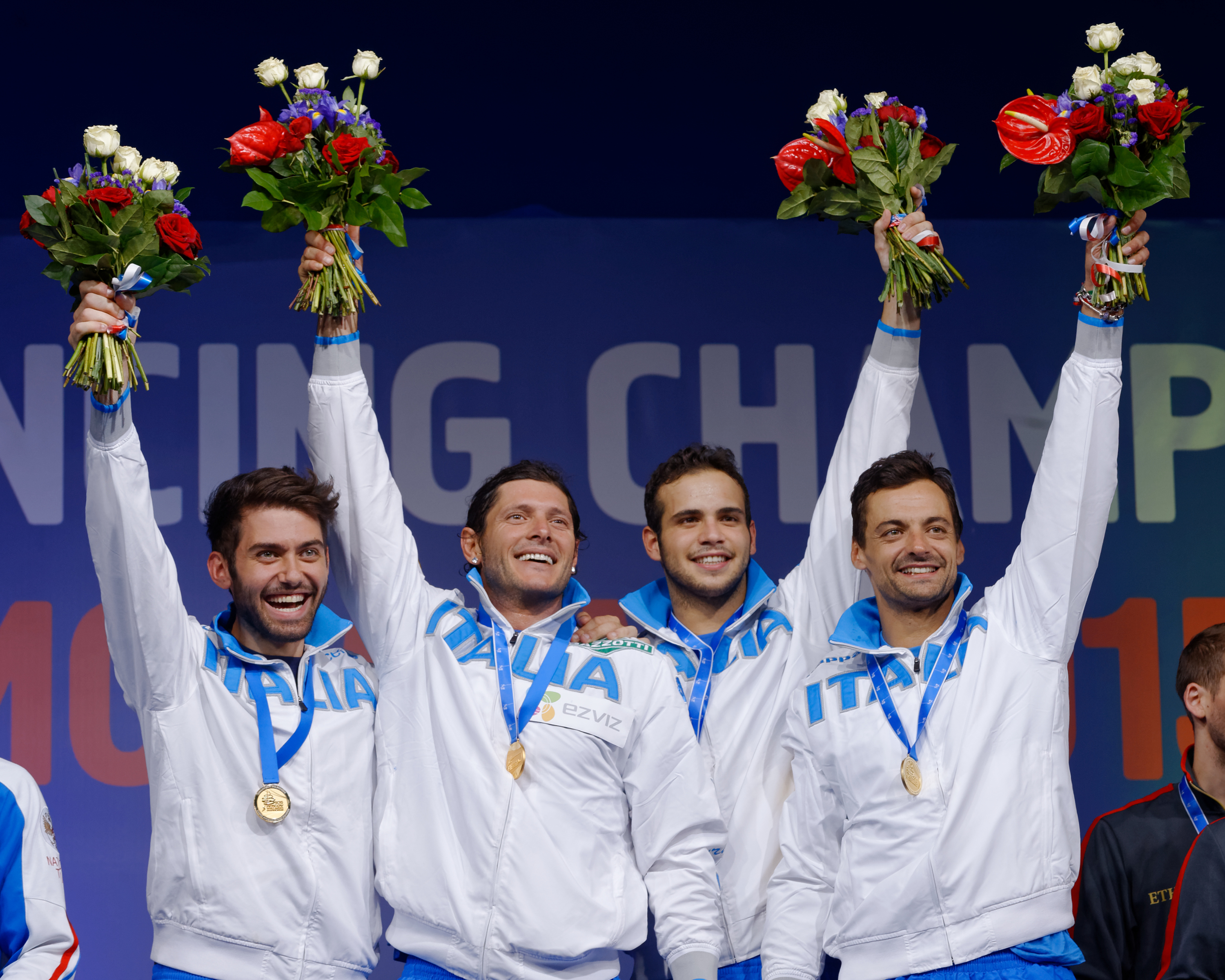 Italy (from left to right, Enrico Berrè, Aldo Montano, Luca Curatoli and Diego Occhiuzzi) at the medal ceremony of the men's team sabre event of the 2015 World Fencing Championships on 17 July 2014 at the Olympic Stadium in Moscow.